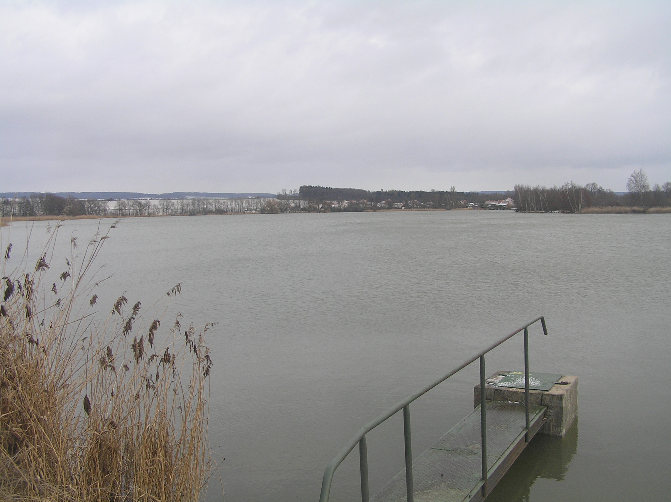 Velký netřebský rybník is the pond near the village Netřeby, Pardubice Region, Czech Republic